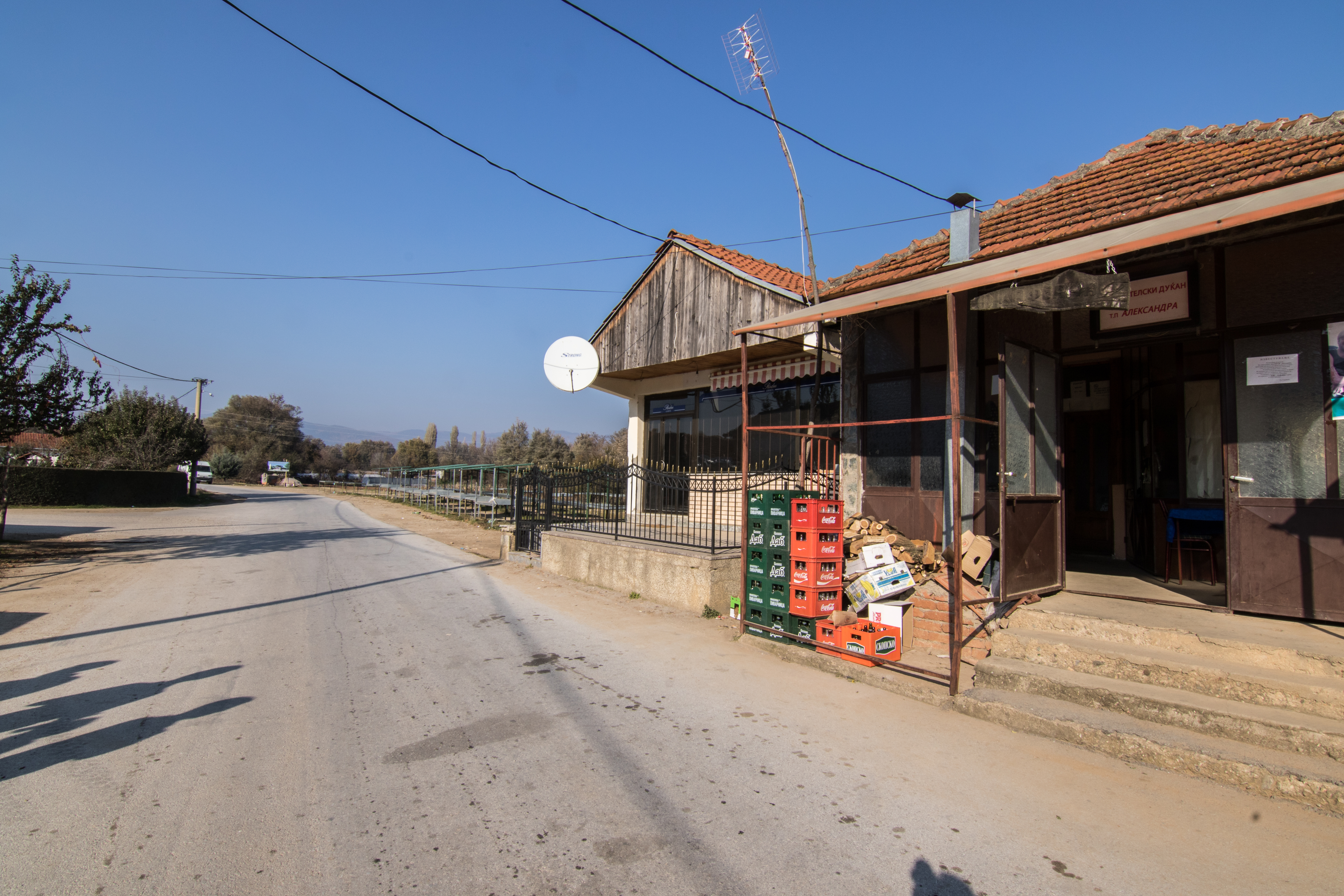 In the village Rankovce